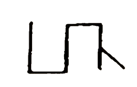 Tamga of Bayandur tribe